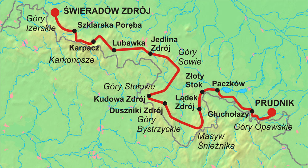 Main Sudeten Trail